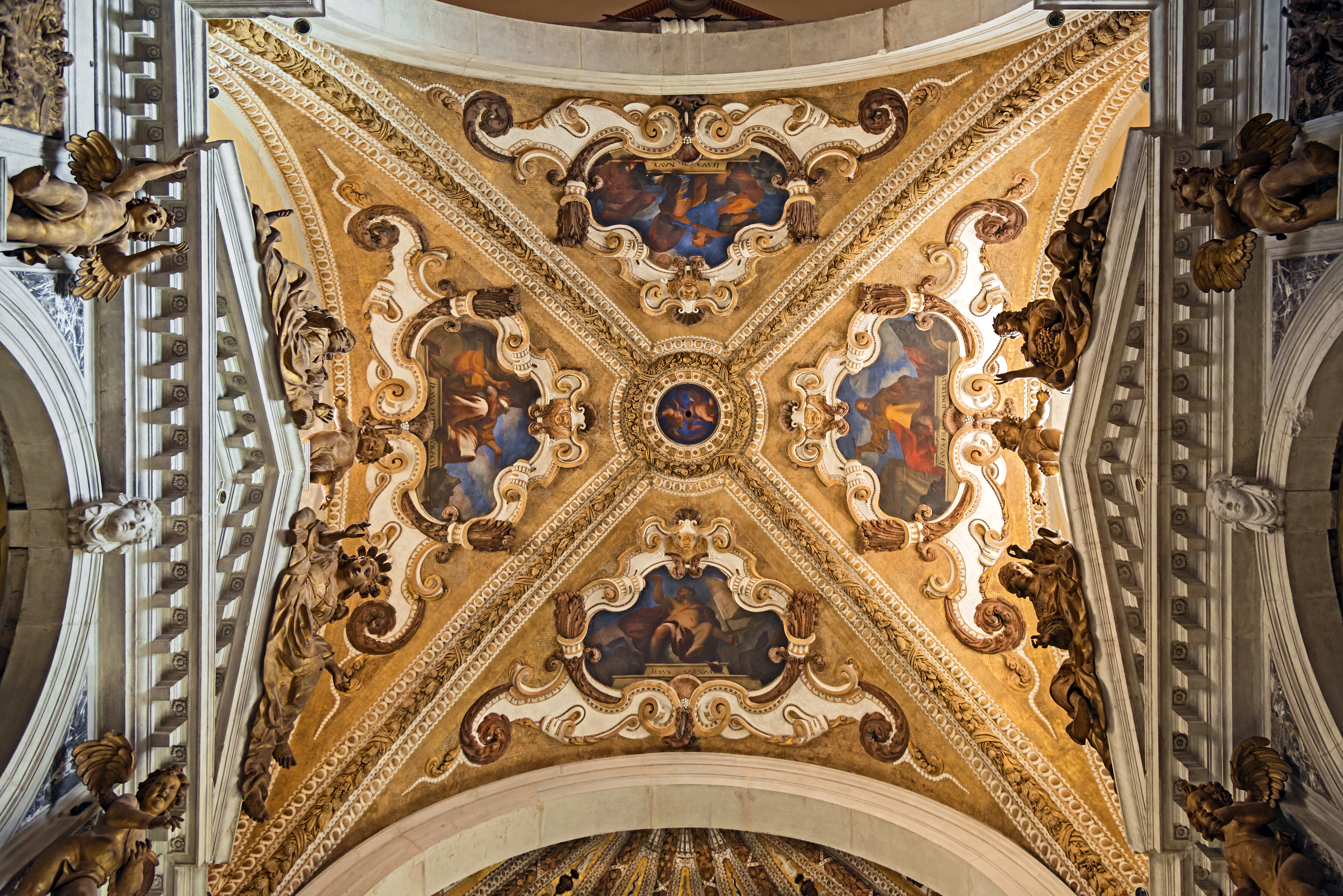 Santi Giovanni e Paolo in Venice - Chapel of the Name of Jesus. Giovanni Battista Lorenzetti sets the vault (Risen Jesus, left the author of "Ecclesiastes" (Jesus son of Sirach) Right after the first High Priest slavery of Babylon (Jesus son of Josedech), and above the great condottiere Joshua (Jesus Nave).) (oils on canvas), 1641.